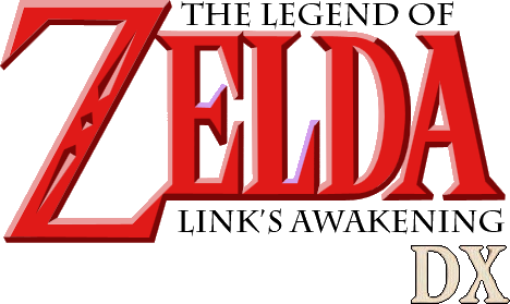 Logotype of The Legend of Zelda: Link's Awakening DX.